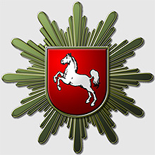 Police star of Lower saxony